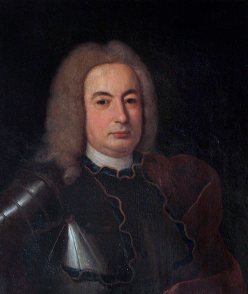 Portrait painting of Pedro Miguel de Almeida Portugal, 1st Marquis of Alorna (1688-1756). In the collection of the Foundation of the Houses of Fronteira and Alorna; Fronteira Palace, Lisbon, Portugal.